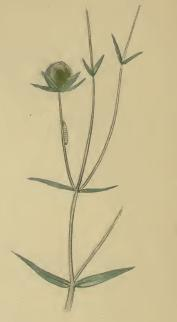 Stainton’s Natural History of the Tineina (1855–1873): Caryocolum marmorea a sprig of Stellaria holostea exhibiting a capsule attacked by larva